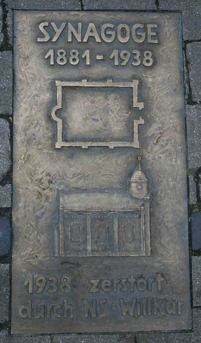 Memorial plate for the former synagogue of Neuenkirchen, Germany